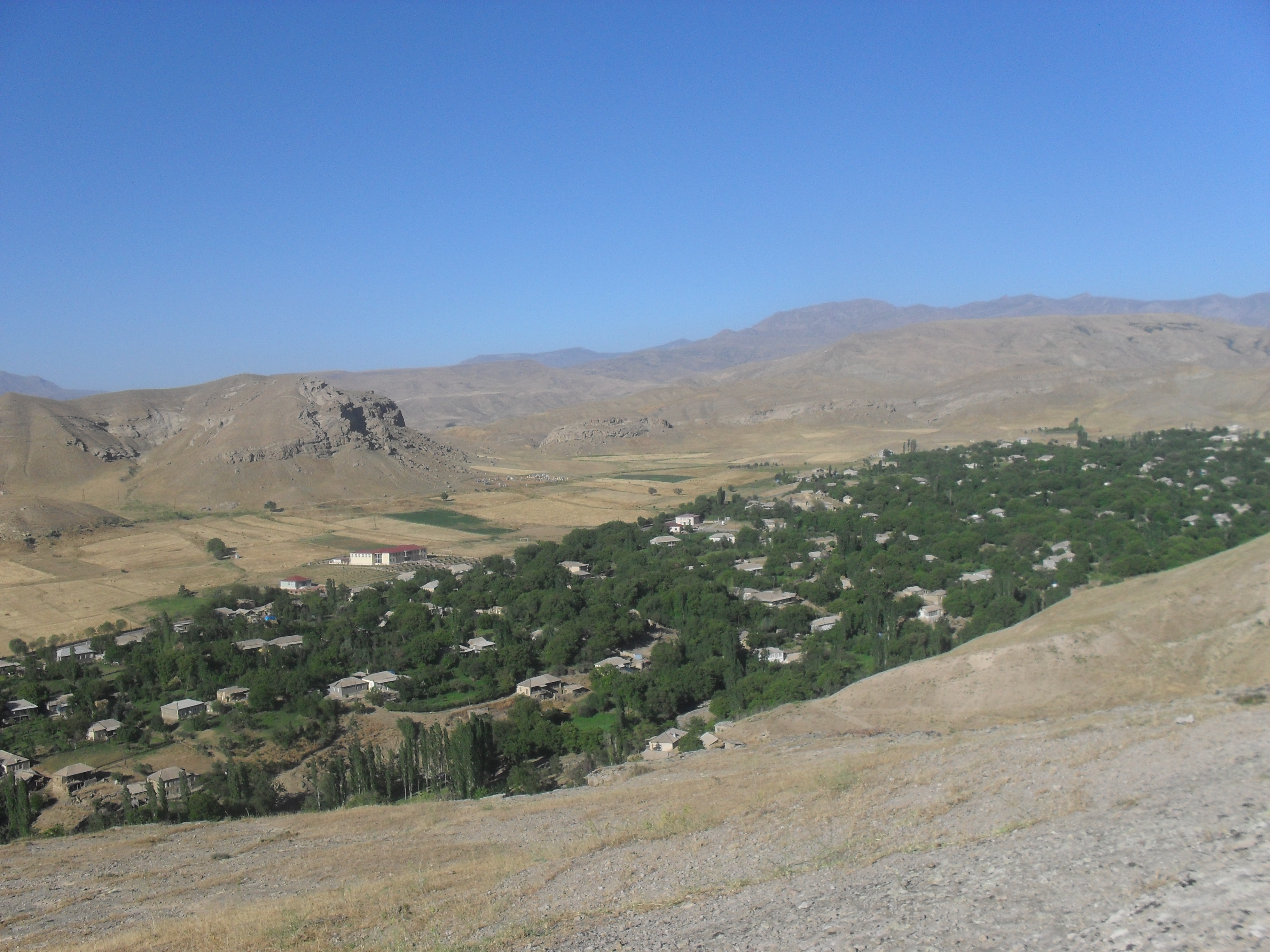 Shahbuz Kend